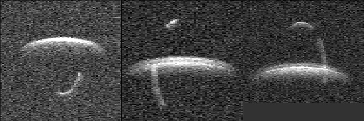 Pictures of a near-Earth binary asteroid system have been taken by astronomers using NASA's Goldstone radar telescope. Images show a trail of a smaller component orbiting a larger object. This system was the third binary near-Earth asteroid pair revealed by radar, but it was the first time when scientists captured the complete orbit of one component around the other. The image was taken when the asteroid came within five million kilometers of Earth (over 3 million miles) by the end of May 2001. It is classified as a Potentially Hazardous Asteroid, because eventually its path through space could intersect Earth. However, the radar measurements, which are accurate to 15 meters (about 49 feet), indicate there is no significant chance of 1999 KW4 colliding with Earth for at least a thousand years.